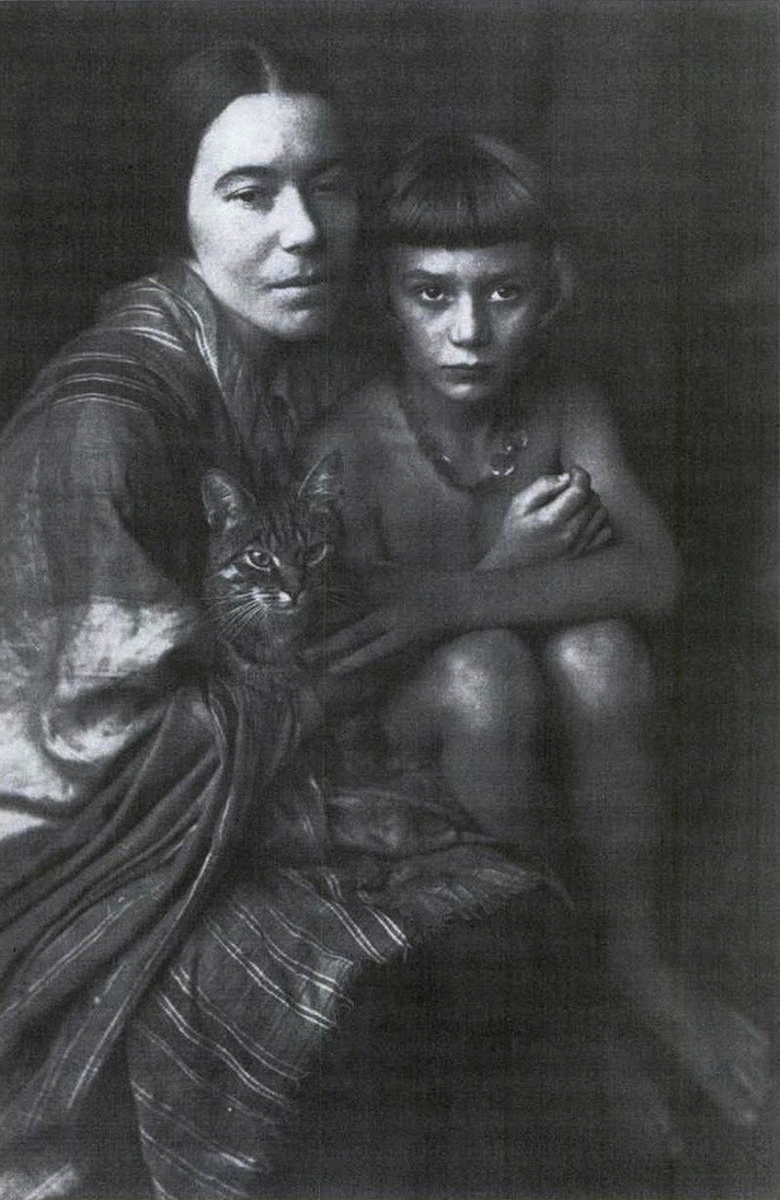 The Austrian poet and painter Paula Ludwig (1900–1974) with her son Siegfried (1917–2007), called Friedel.